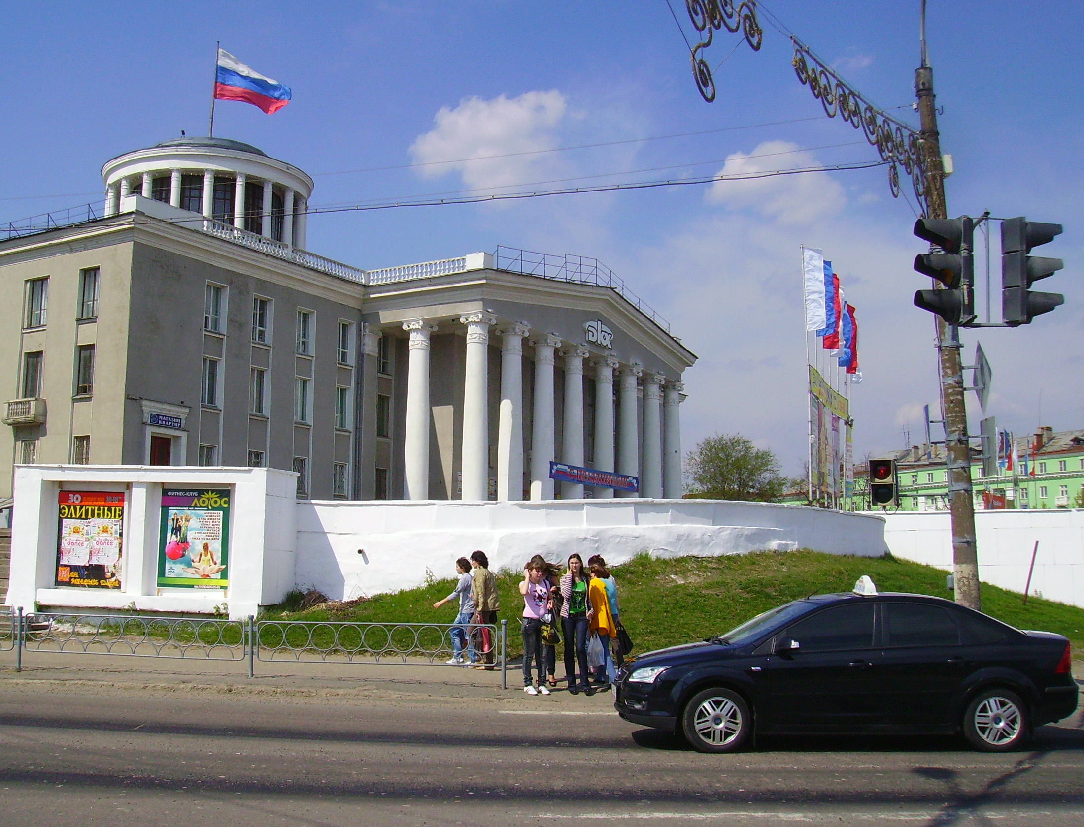 Near Chemists Palace of Culture